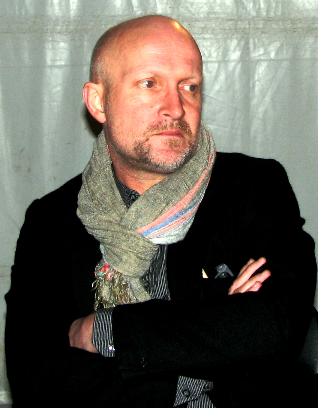 Lars Saabye Christensen in Tallinn Literature Festival HeadRead